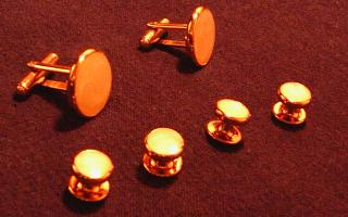 A set of cufflinks and studs.